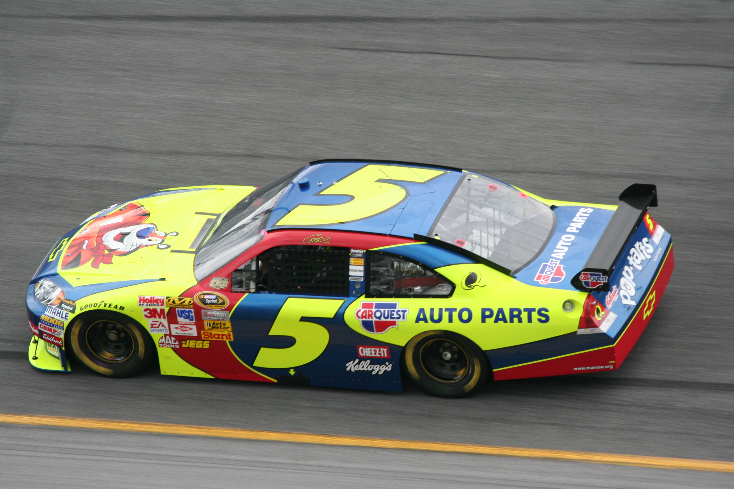 Shot by The Daredevil at Daytona during Speedweeks 2008Casey Mears Kellogg's Chevy Impala